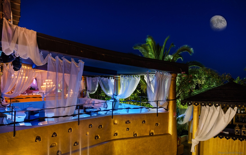 Inside the Billionaire club in Porto Cervo